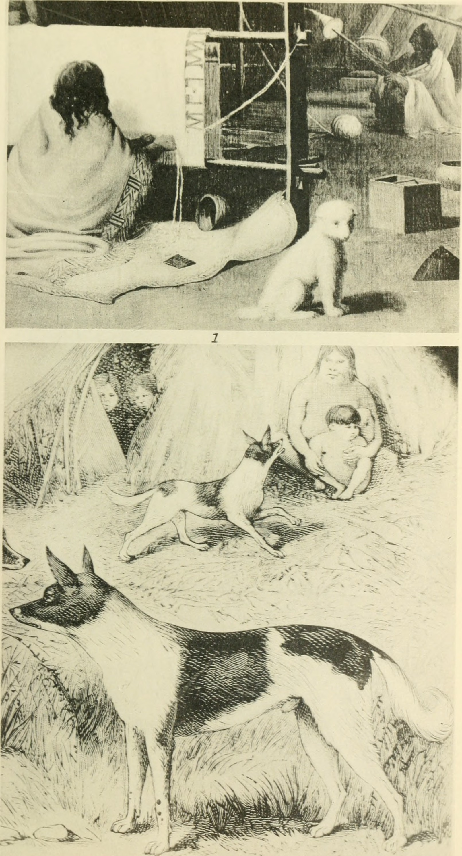 Title: Bulletin of the Museum of Comparative Zoology at Harvard College Year: 1863 (1860s) Authors: Harvard University. Museum of Comparative Zoology Subjects: Zoology Zoology Publisher: Cambridge, Mass. : The Museum Text Appearing Before Image: PL.\TE 4. Doipi iif I 111 \nicri«an Ahoriirinos. PLATE 4. Fig. 1.— Clallam-Indian Dog. From the painting bj Paul Kane in 1846,now in the Royal Ontario Museum of Archaeologj at Toronto. Fig. 2.— Fuegian Dog. Reproduction of dHerculais i,1884) figure drawnfrom a dog brought to France from Tierra del Fuego fjy the MissionScientifique du Cap Horn. BULL. MUS.C0MP.206l. ALLEf; Plate 4 Text Appearing After Image: PLATE 5. AlLEN.— Oof.N (if till XiniTiciiii MMirigines. PLATE 5. Fig. 1.— A clog of the Bersiniis Indians, Canada, supposed to represent theShort-legged Indian Dog. Photograph by William B. Cabot. Fig. 2.-— Small yollow-and-white or brindle dogs, with a cnild of the MacusiIndians in southern British Guiana. These dogs may have more orless blood of European stock, but probably retain some aboriginalcharacteristics. Photograph by Dr. William C. Farrabee. BULL. MUS.C0MP.200L. Allen. Dogs. Plate 5